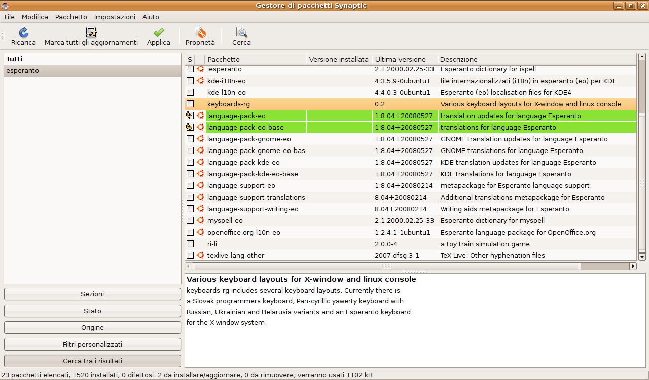 Esperanto localization packages in Synaptic of Ubuntu Hardy Heron